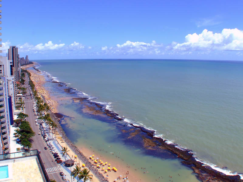 Natural pools - Boa Viagem Beach - Recife, Pernambuco, Brazil